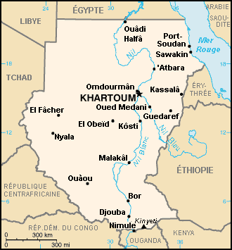 French map of Sudan